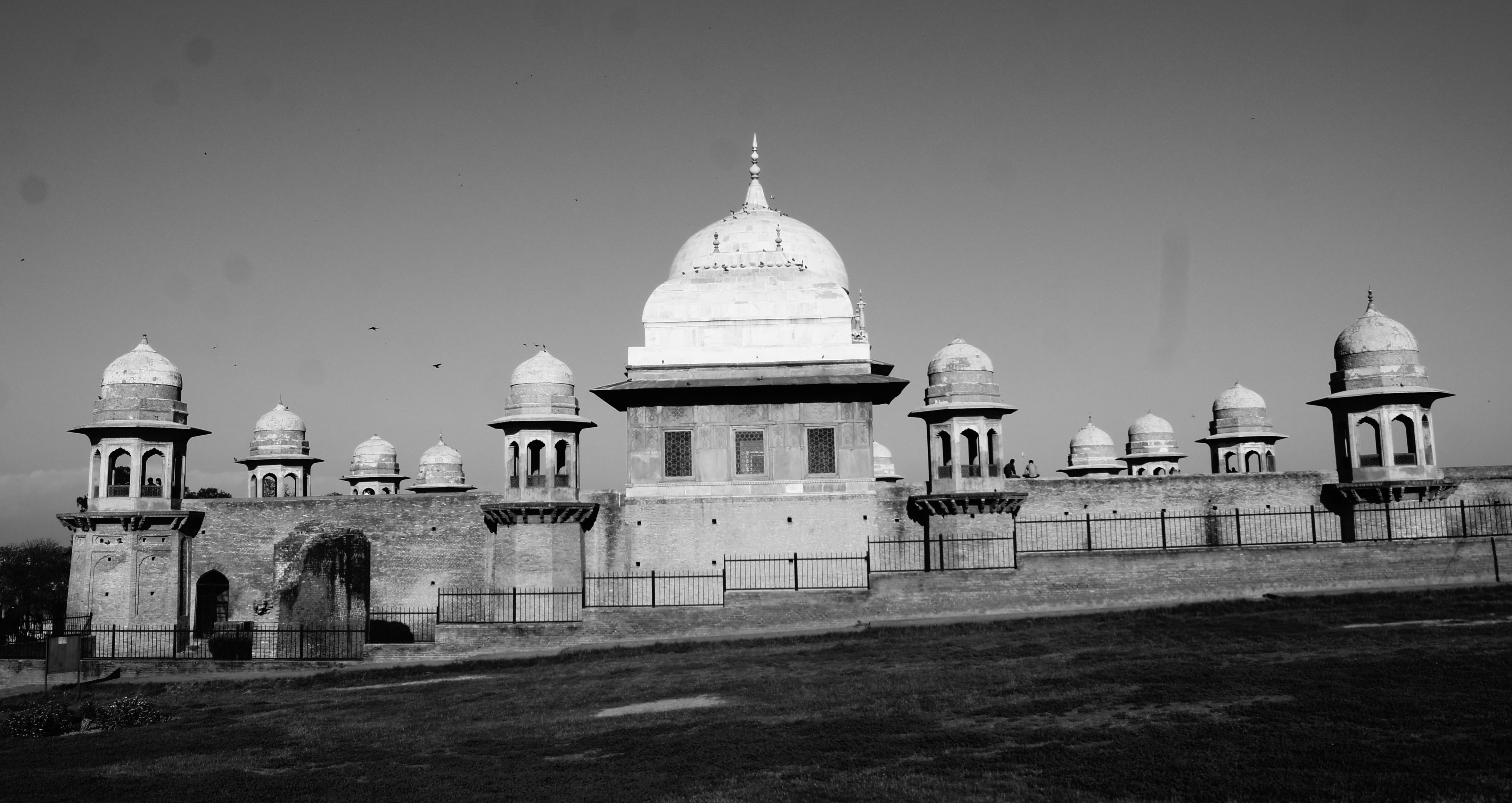 Sheikh Chilli's Tomb Kurukshetra